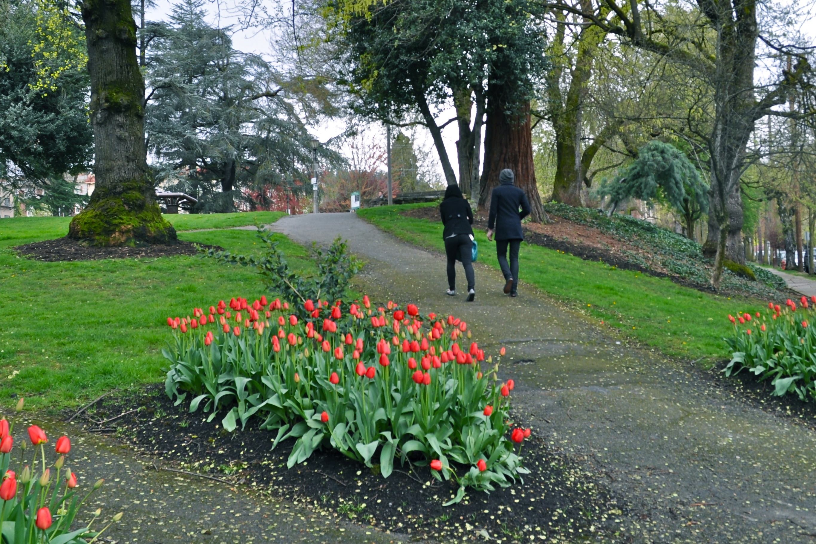 Couch Park in northwest Portland, Oregon in March 2010